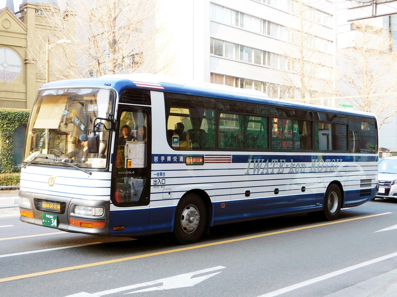 Iwateken kotsu Isuzu Gala (KL-LV774R2)highwaybus "Sendai-Esashi"